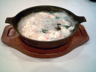 Kinokozousui_(Gusto_Restaurant)_japan photography day, 2006.10.26. photography person kici